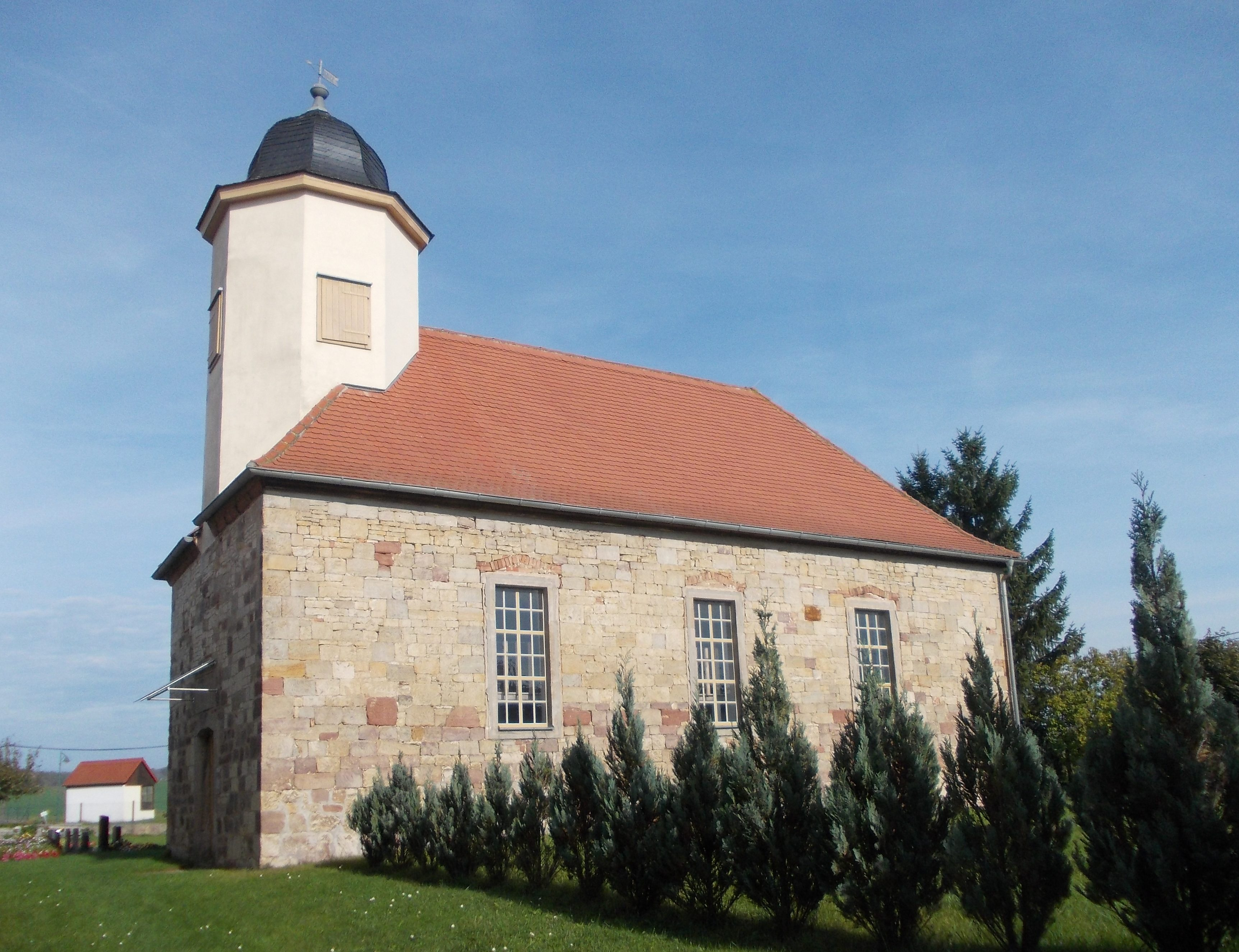 Dobichau church (Freyburg/Unstrut, district: Burgenlandkreis, Saxony-Anhalt)